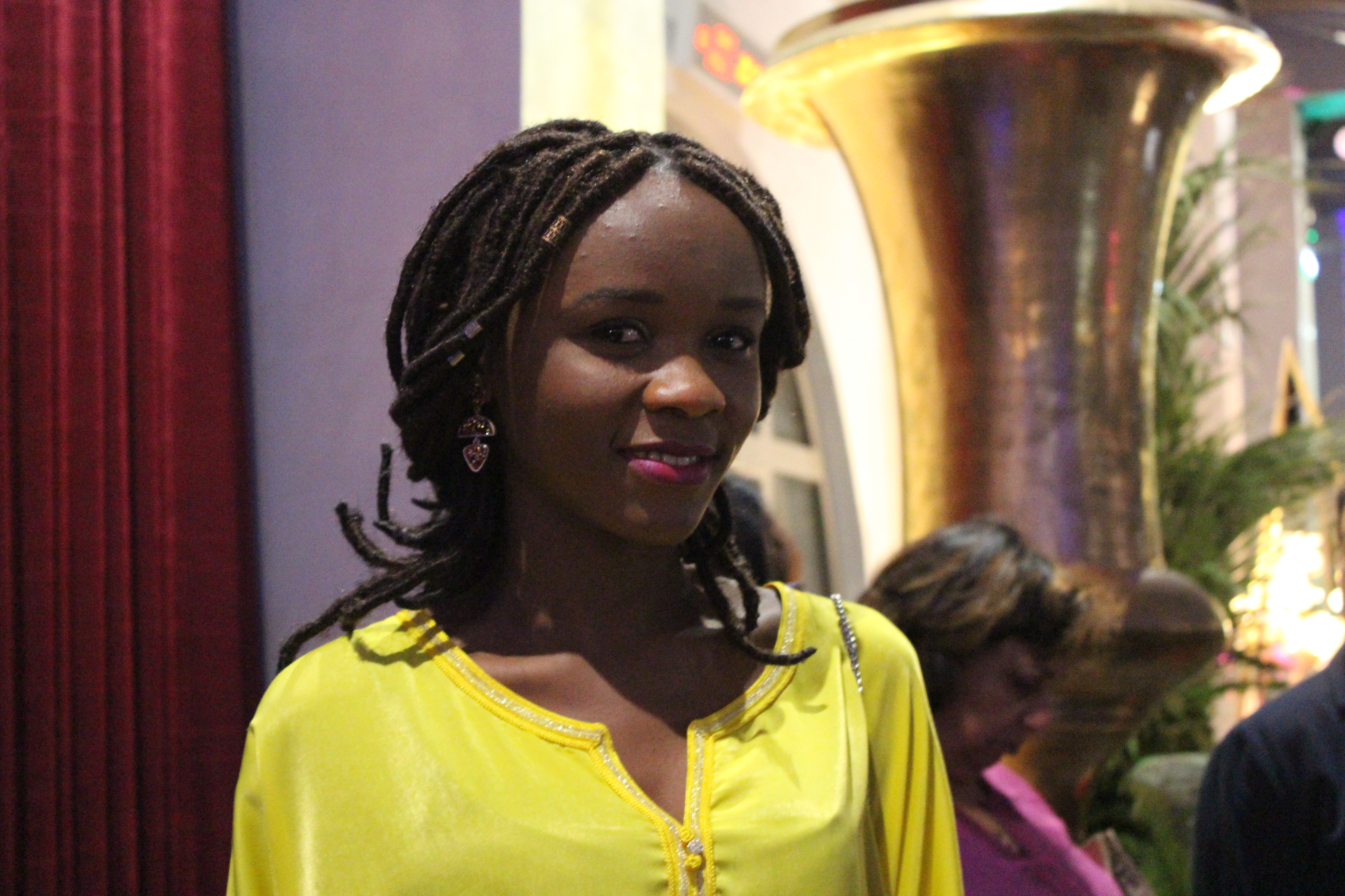 Opening ceremony of the 2018 Carthage Film Festival